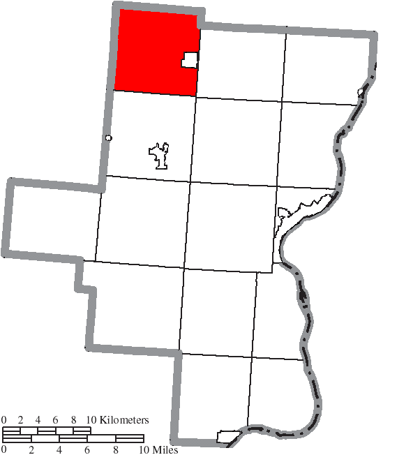 Map of the municipal and township boundaries of Gallia County, Ohio, United States, as of the 2000 census, with the location of Huntington Township highlighted. Township borders are shown only in unincorporated areas in order to differentiate incorporated and unincorporated areas more clearly.